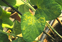 Leaves showing rust from Phakopsora pachyrhizi plant pathogen.